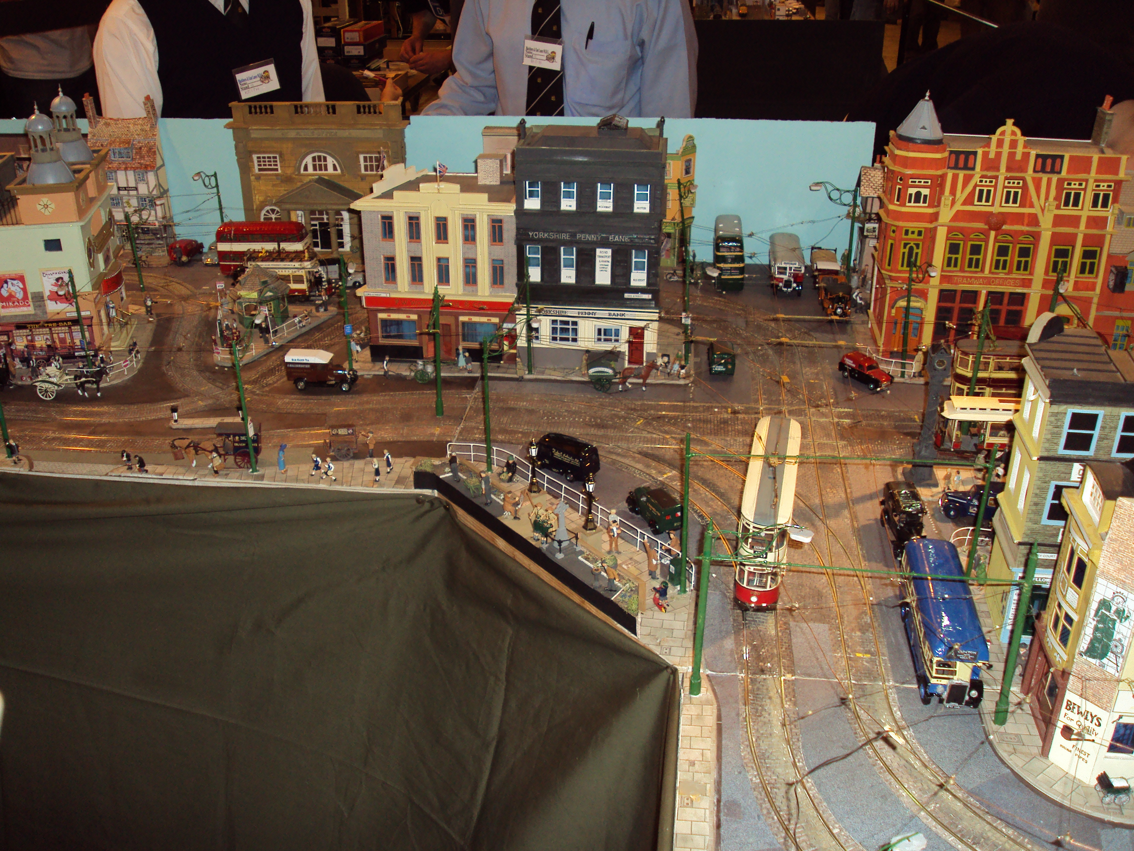 Photo taken at the 44th annual exhibition of the Blackburn & East Lancs Model Railway Society held in October 2009 at King Georges Hall, Northgate, Blackburn, Lancashire, England.